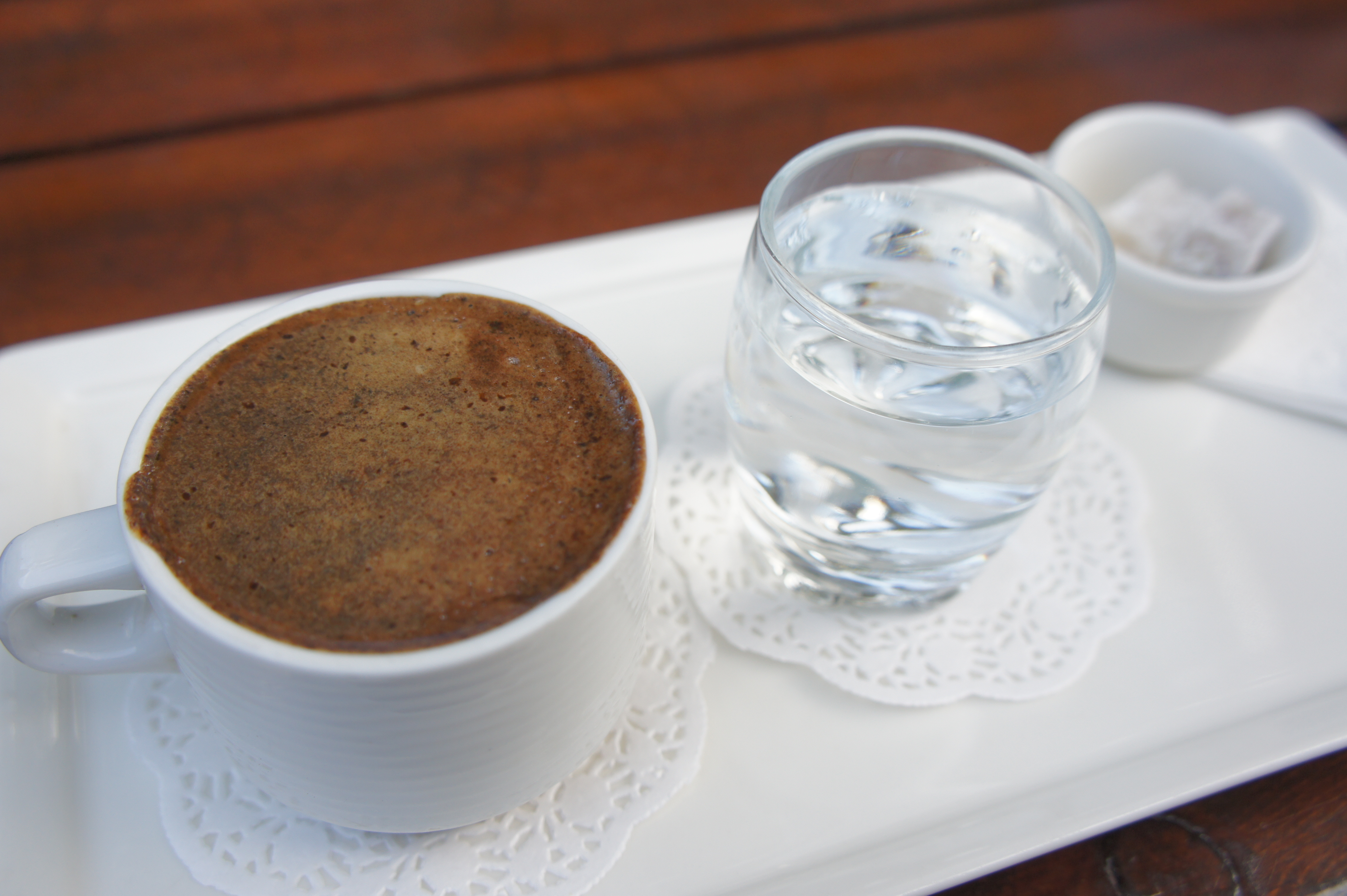 Kurdish coffee, a coffee-like beverage made from the roasted terpentine fruit (Piscacia terebinthus) Kurdî: Qehweya kurdî, qehweya kezwanê, qehweya shingêlê